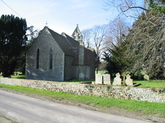 St Peter's parish church, Monks Horton, Kent, seen east-northeast